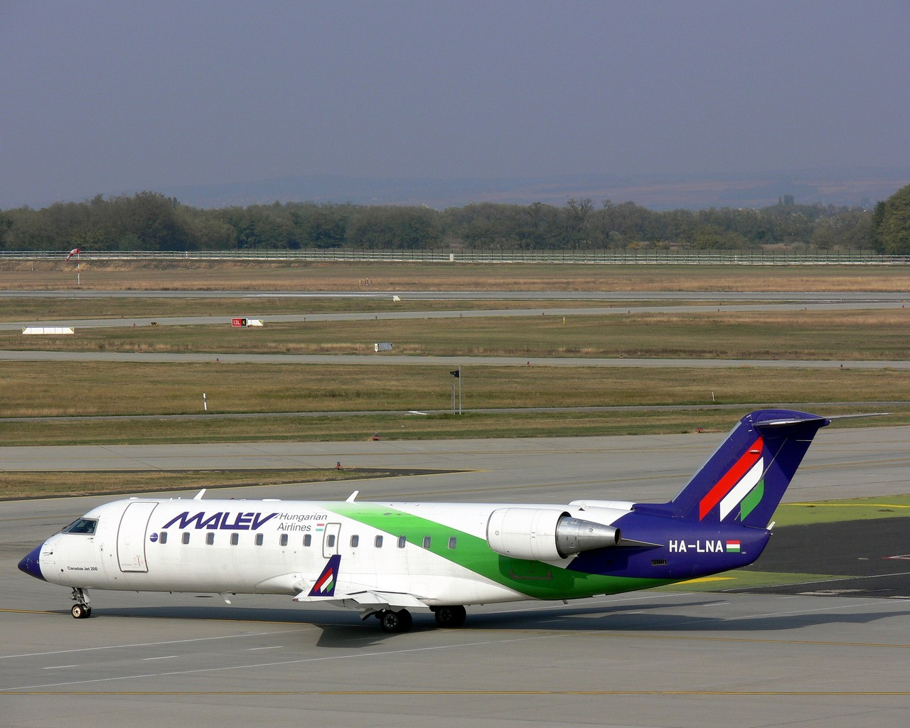 Canadair Jet 200 Malév Hungarian Airlines HA-LNA